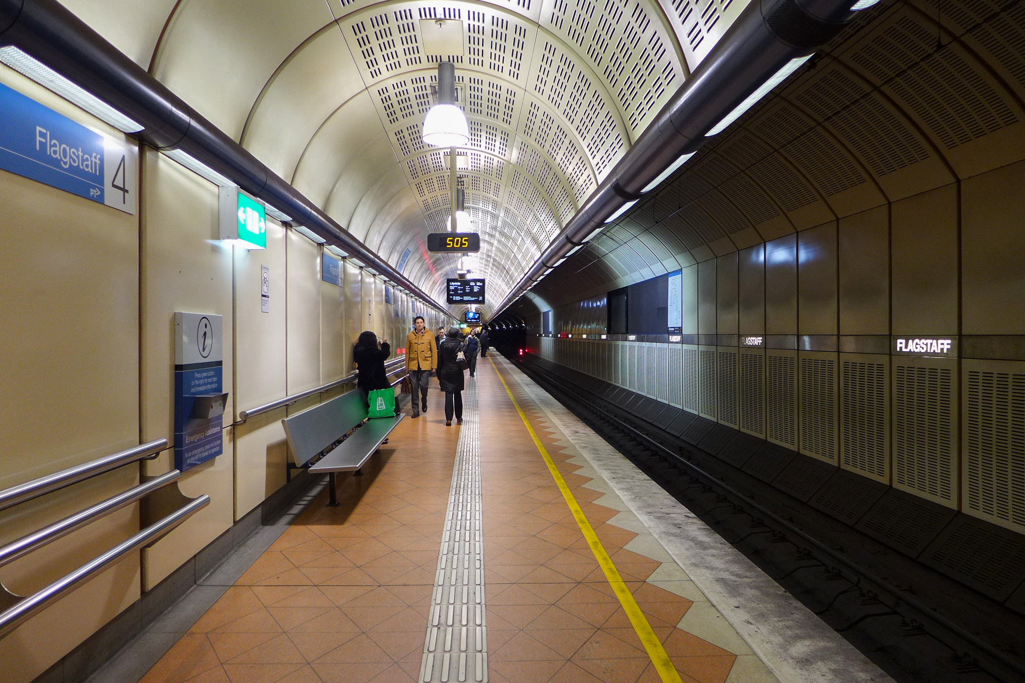 Flagstaff Station Platform 4